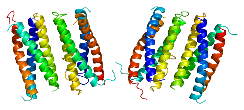 Structure of the CNTF protein. Based on PyMOL rendering of PDB 1cnt.